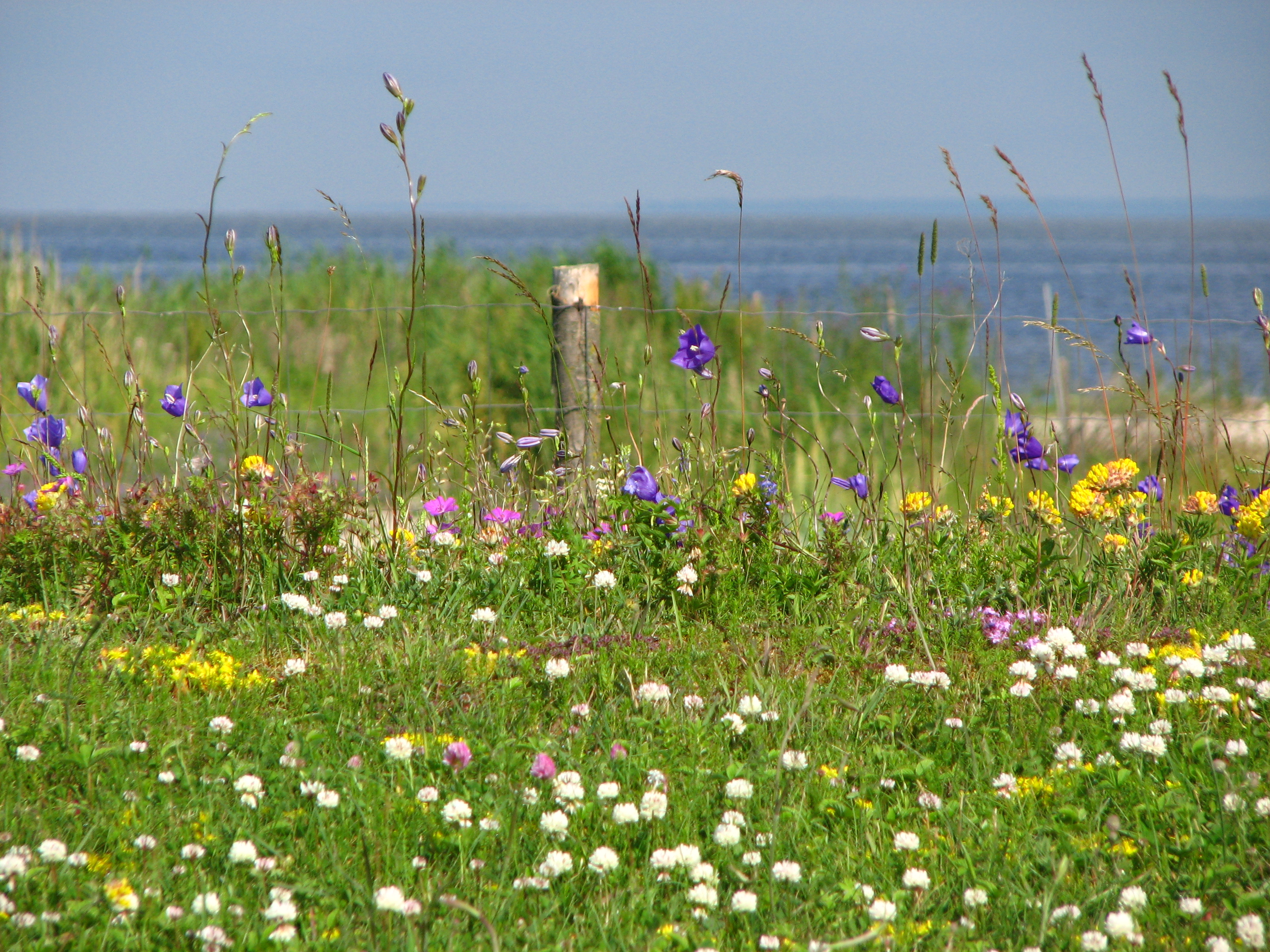 Nature of islet Manilaid (Estonia) in summer 2009.